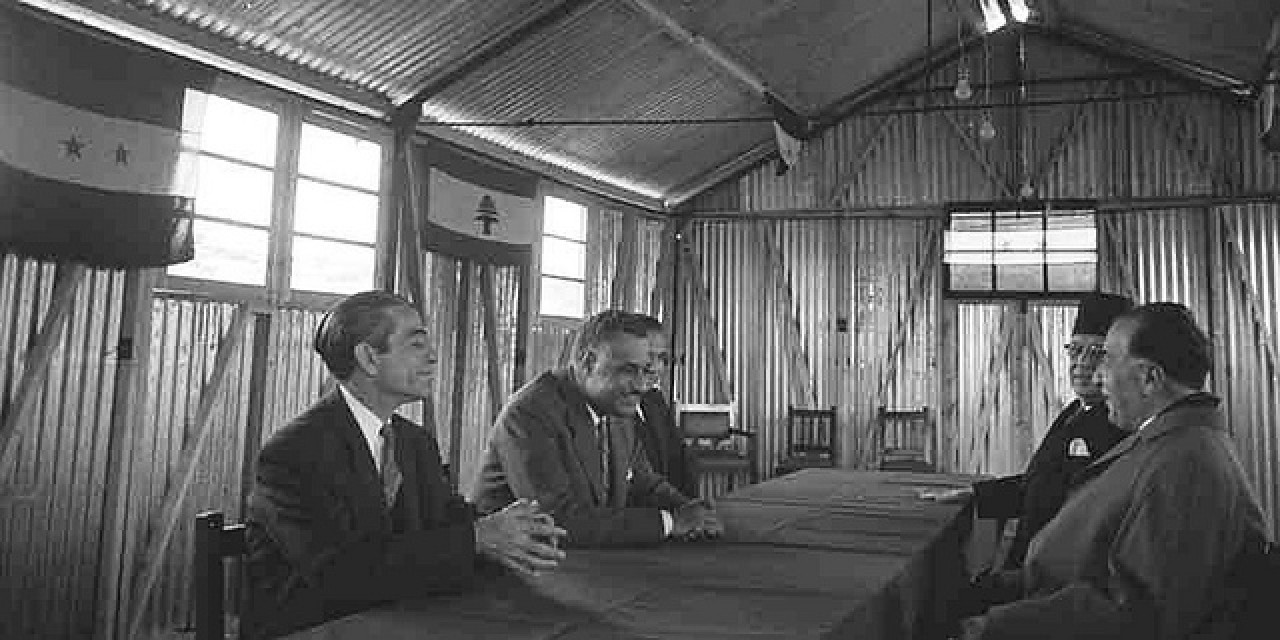 United Arab Republic President Gamal Abdul Nasser meeting his Lebanese counterpart Fouad Shihab in 1958 / The meeting on the Syrian-Lebanese border was intended to settle disputes between Syria and Lebanon. Seated on the left are United Arab Republic Vice President Akram al-Hawrani, President Gamal Abdul Nasser, and UAR Ambassador to Beirut Abdul Hamid Ghaleb. Facing them are Lebanese President Fouad Shihab and Prime Minister Takiddine al-Sulh.